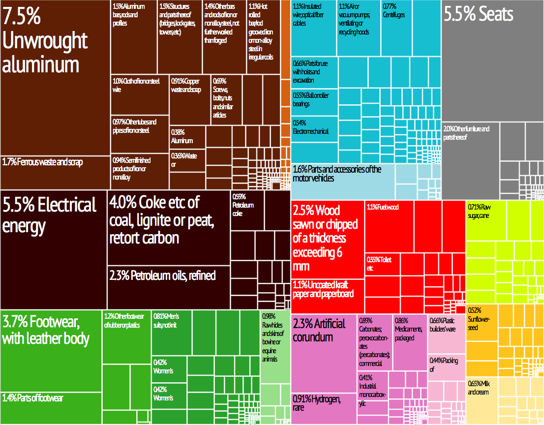 Bosnia and Herzegovina Export Treemap from MIT Harvard Economic Observatory